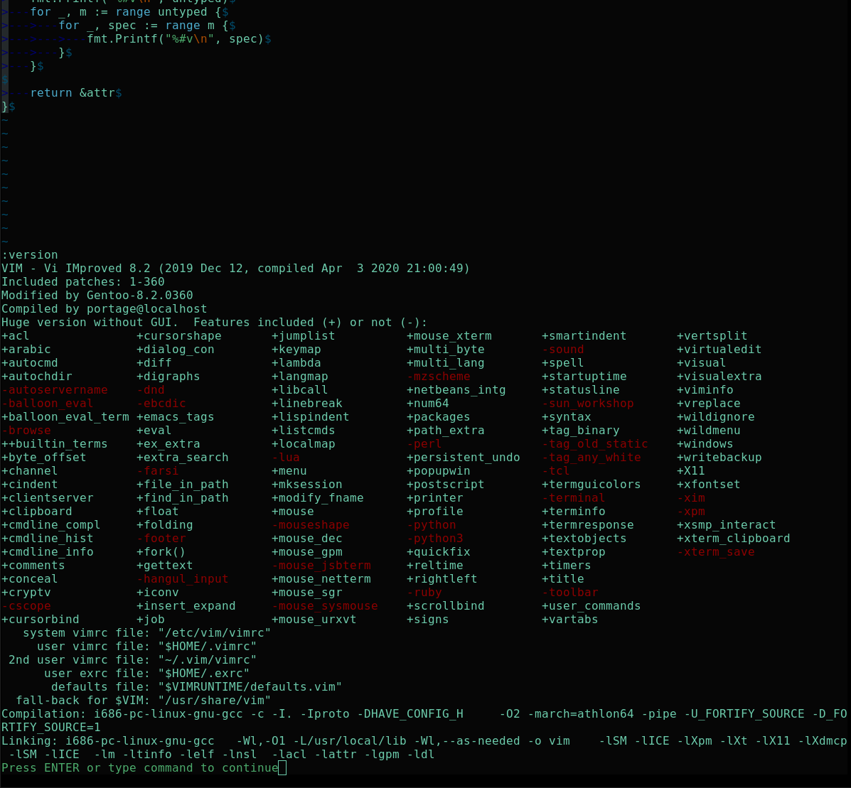 Vim 8.2 on Gentoo Linux, default config.